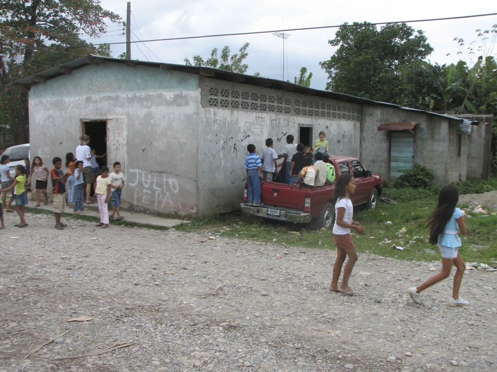 The town hall in Armenia Bonito, La Ceiba. This picture was taken by Mike Pettengill.